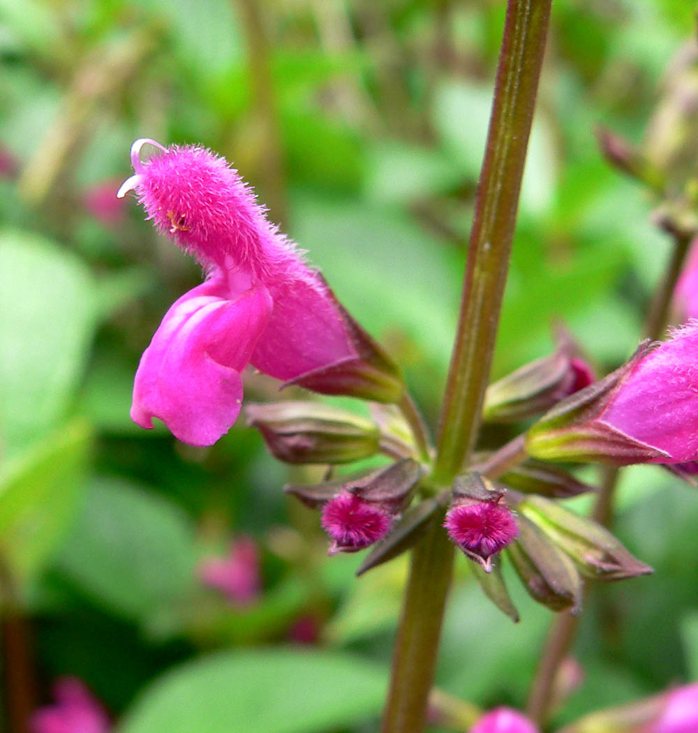 Photo of Salvia chiapensis at the University of California Botanical Garden